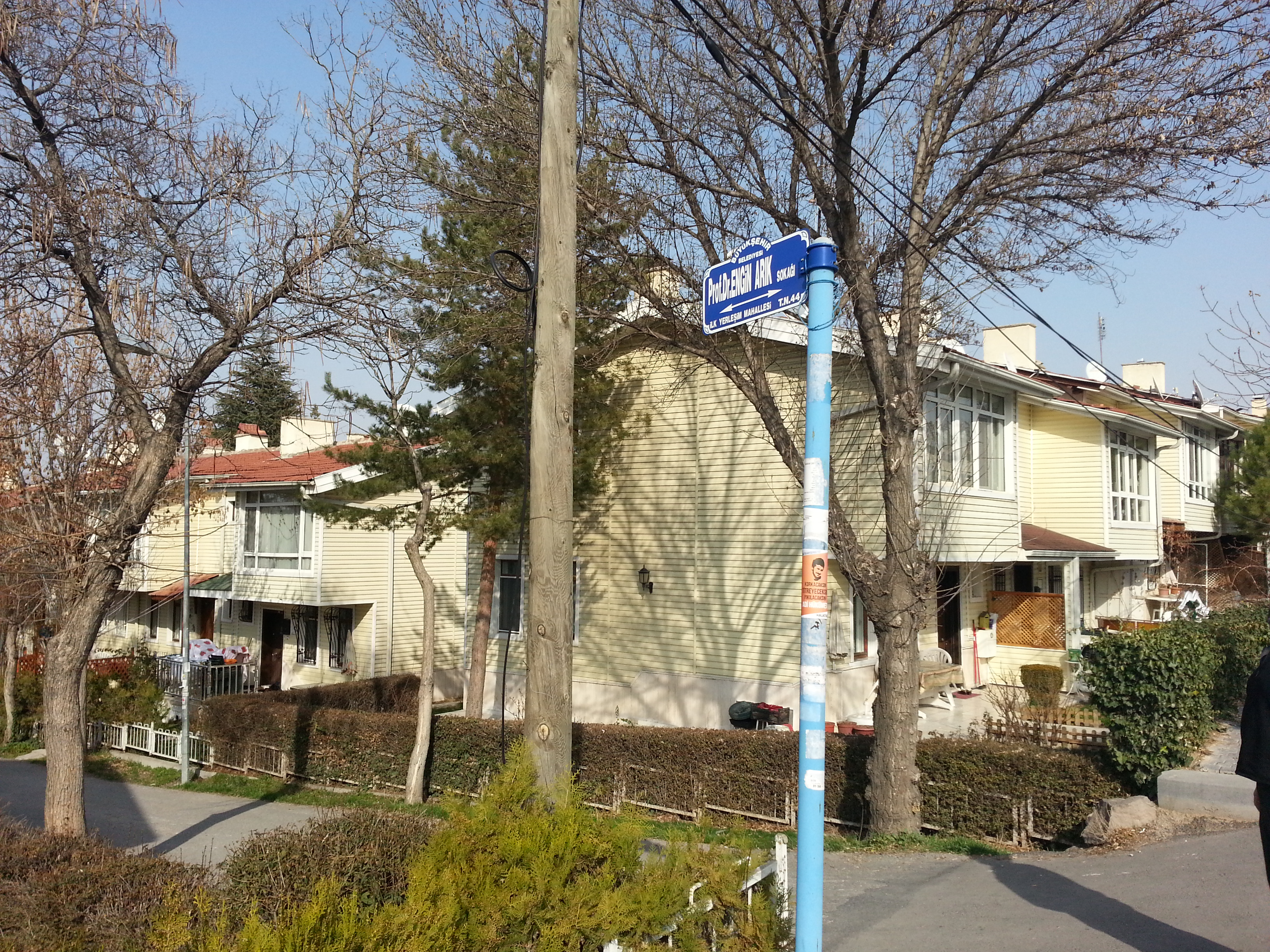 The street sign for the street named after late prof. Engin Arik, in the Ilkyerlesim neighborhood of Yenimahalle district in Ankara, Turkey.